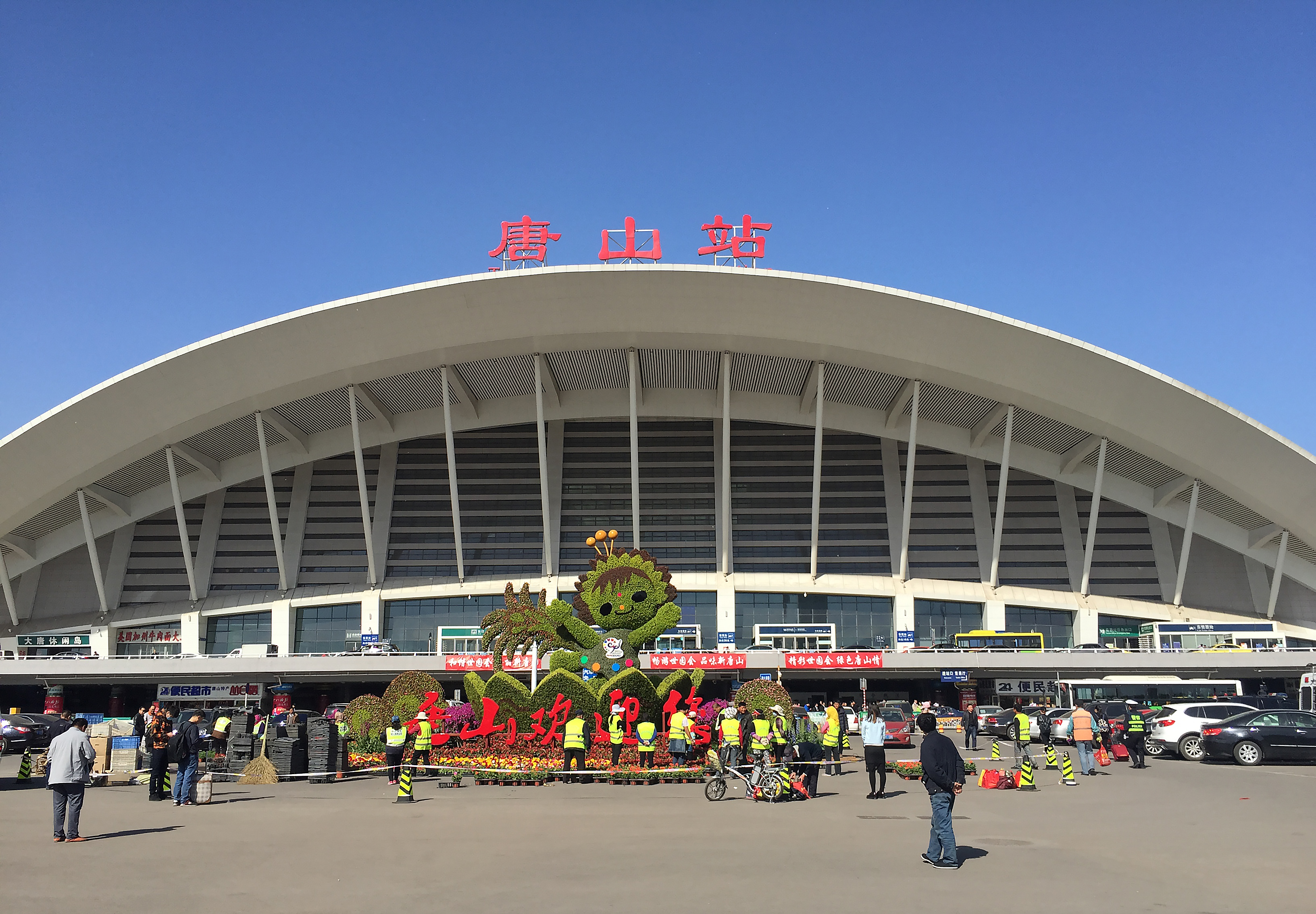 Taken after D6611.